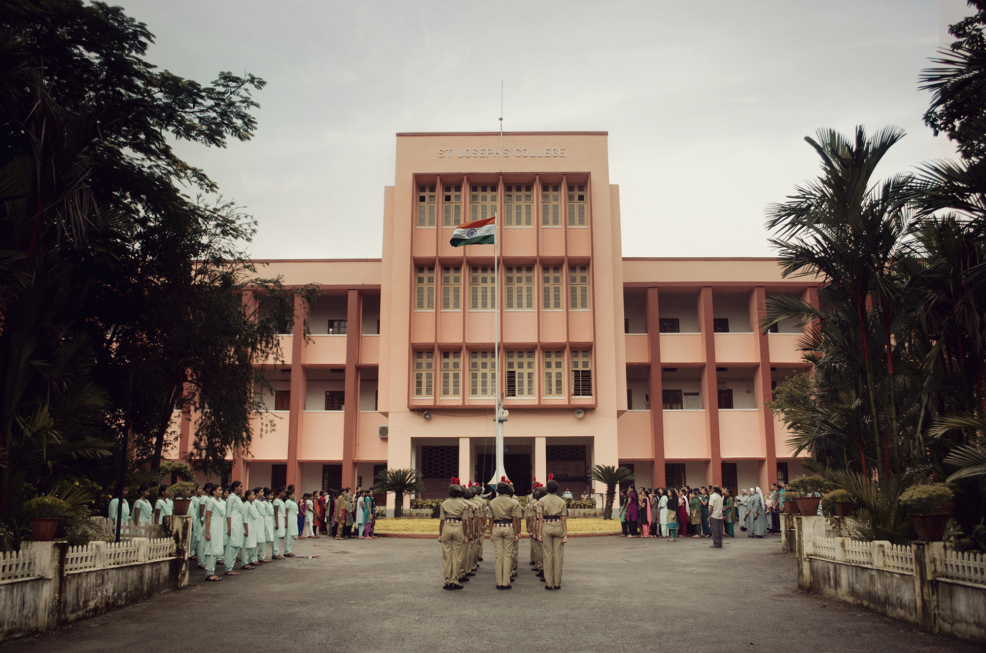 St Joseph College, Irinjalakuda is the first women's college in Kerala. The college has been established in 1964. The photograph was clicked by Hari Bhagirath